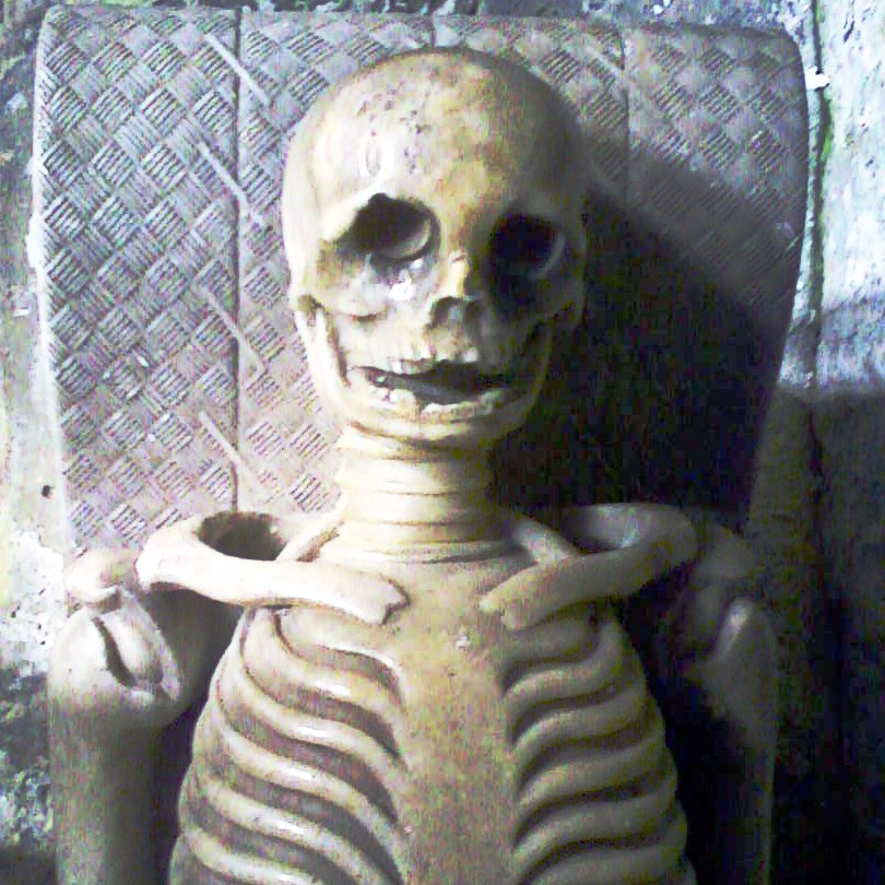 Breedon Priory, Breedon-on-the-Hill, Leicestershire: Chellaston alabaster skeleton sculpture on the bottom tier of a three-tier monument to George Shirley (died 1588) and members of his family. Square format for DYK on wikipedia.